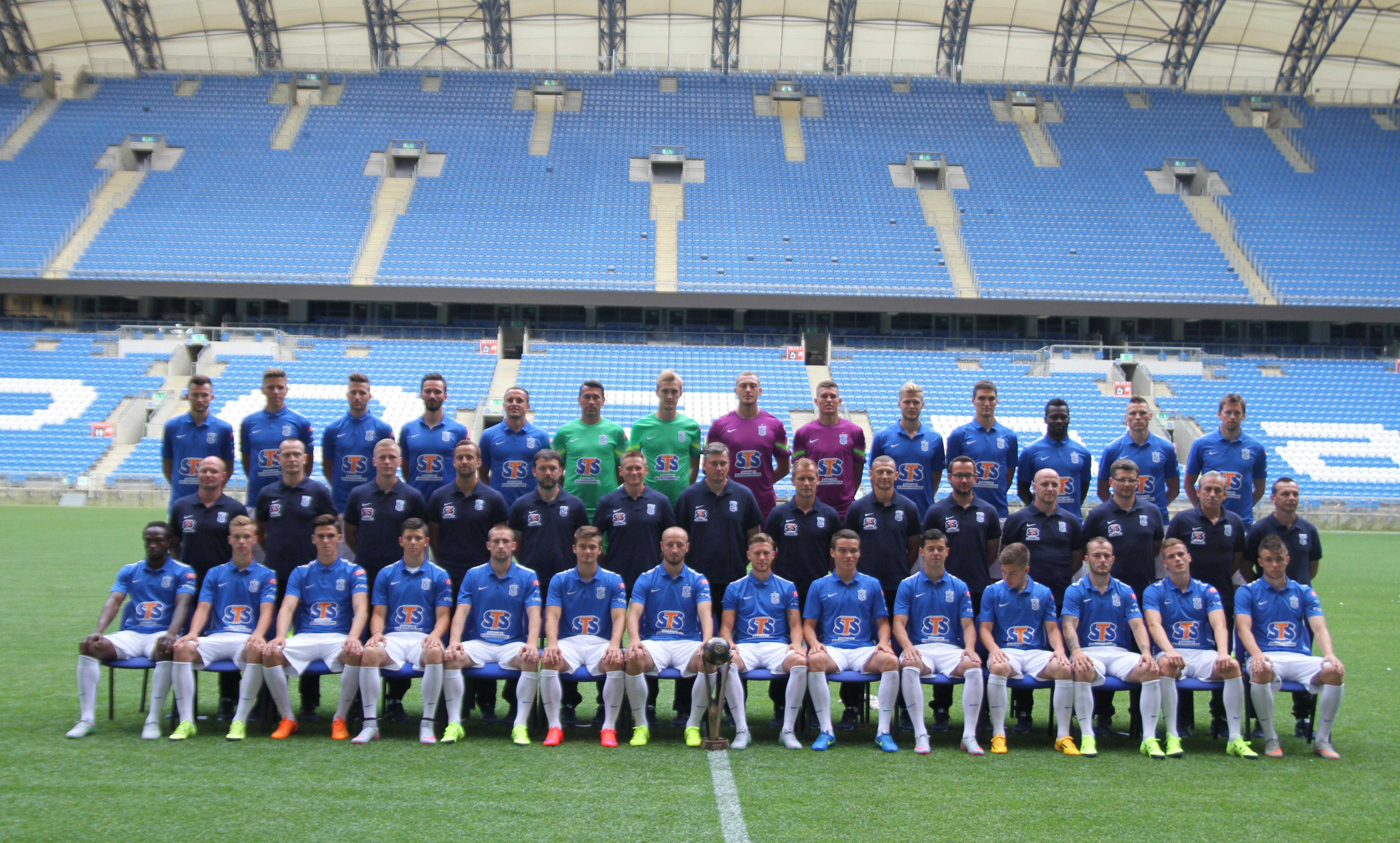 Football players of Lech Poznań, Poznań, Poland.